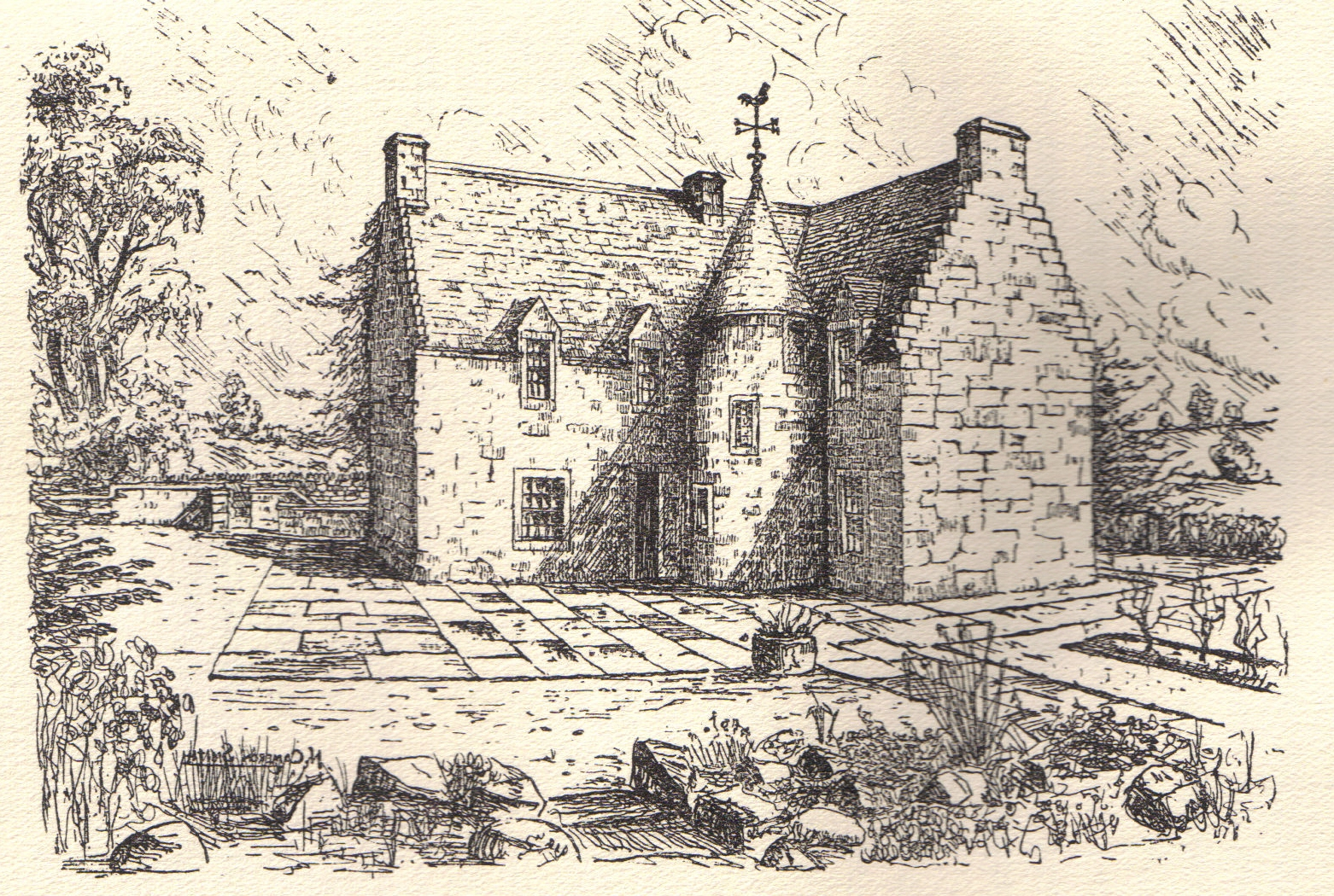 Dunlop Old Manse, East Ayrshire, Scotland.